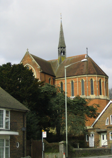 View northwest from London Road, St Leonard's-on-Sea, East Sussex showing the spire and apsidal chancel of St Matthew's parish church, Silverhill